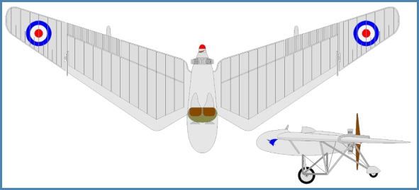 Westland Hill Pterodactyl 1C 1925